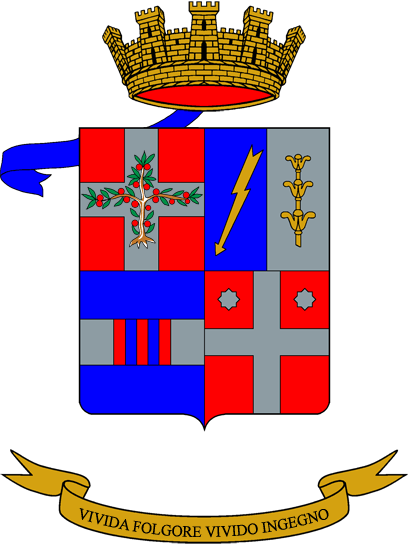 Coat of Arms of the 184° Signal Support Regiment; Italian Army.